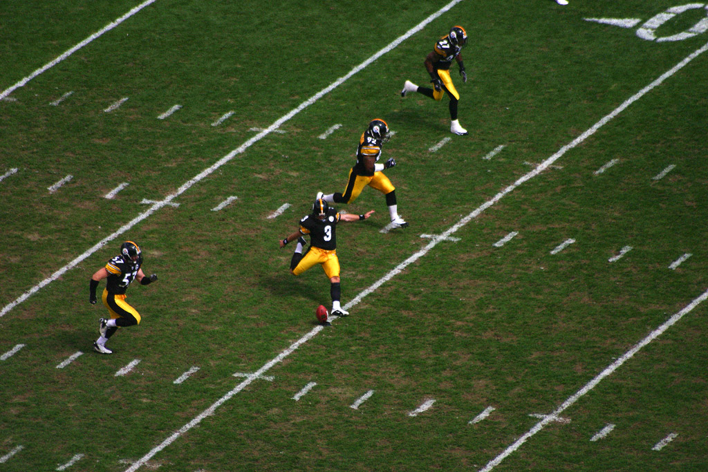 Jeff Reed winds up for the kickoff. Heinz Field, Pittsburgh, PA.